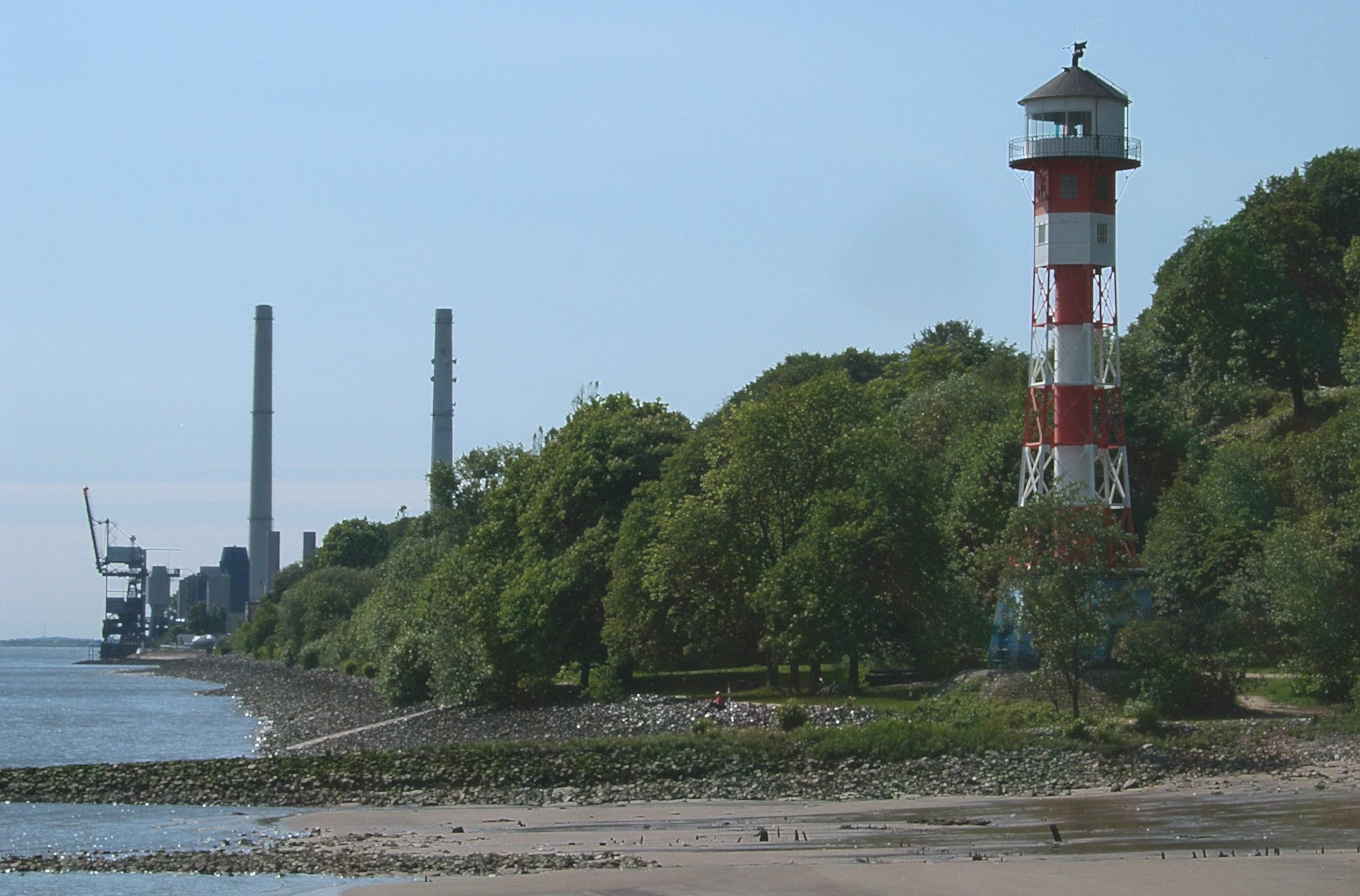 Wittenbergen lighthouse in Hamburg-Rissen